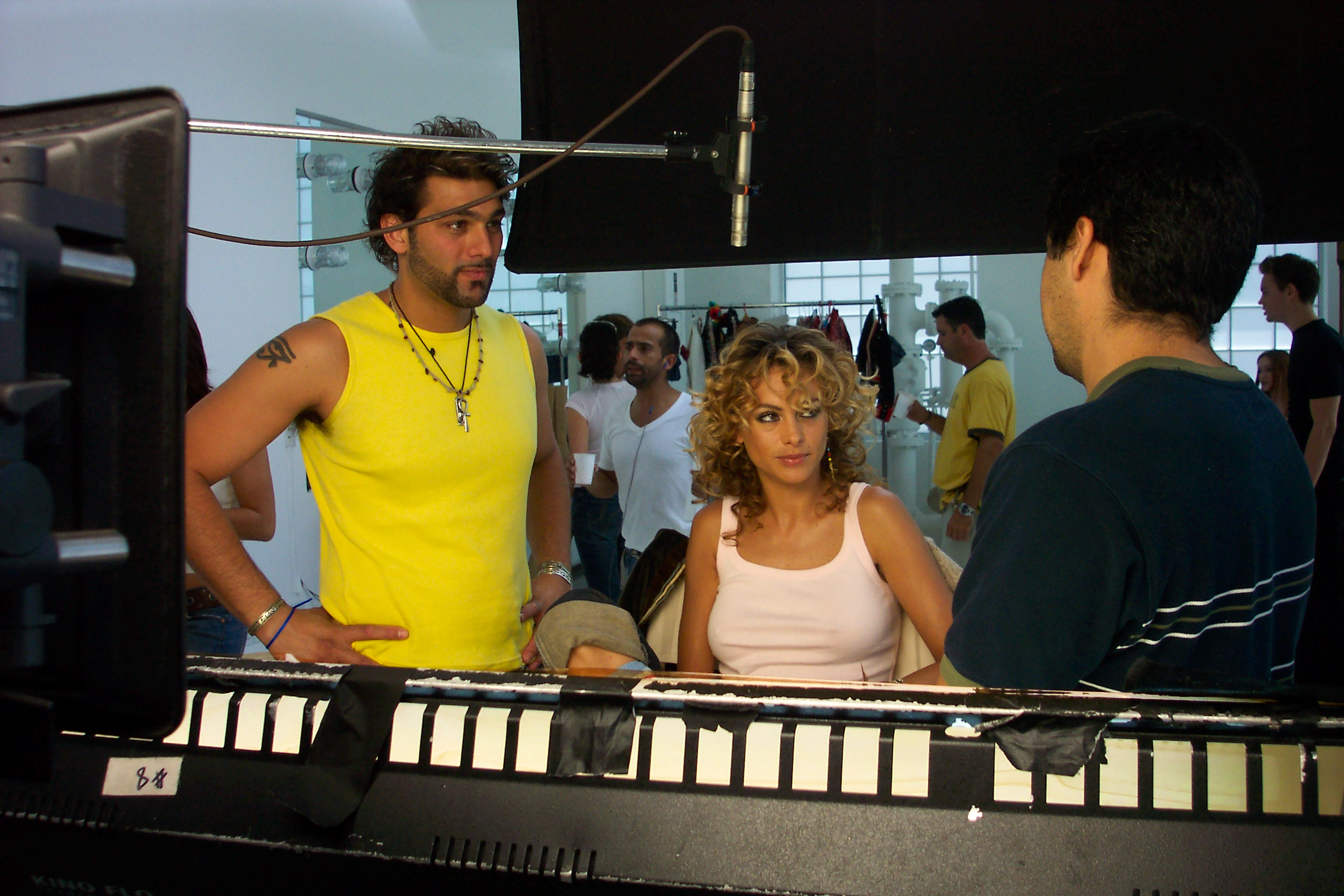 Mexican Singer Paulina Rubio and Celebrity Hair stylist Leonardo Rocco in Miami, Florida, United States of America.